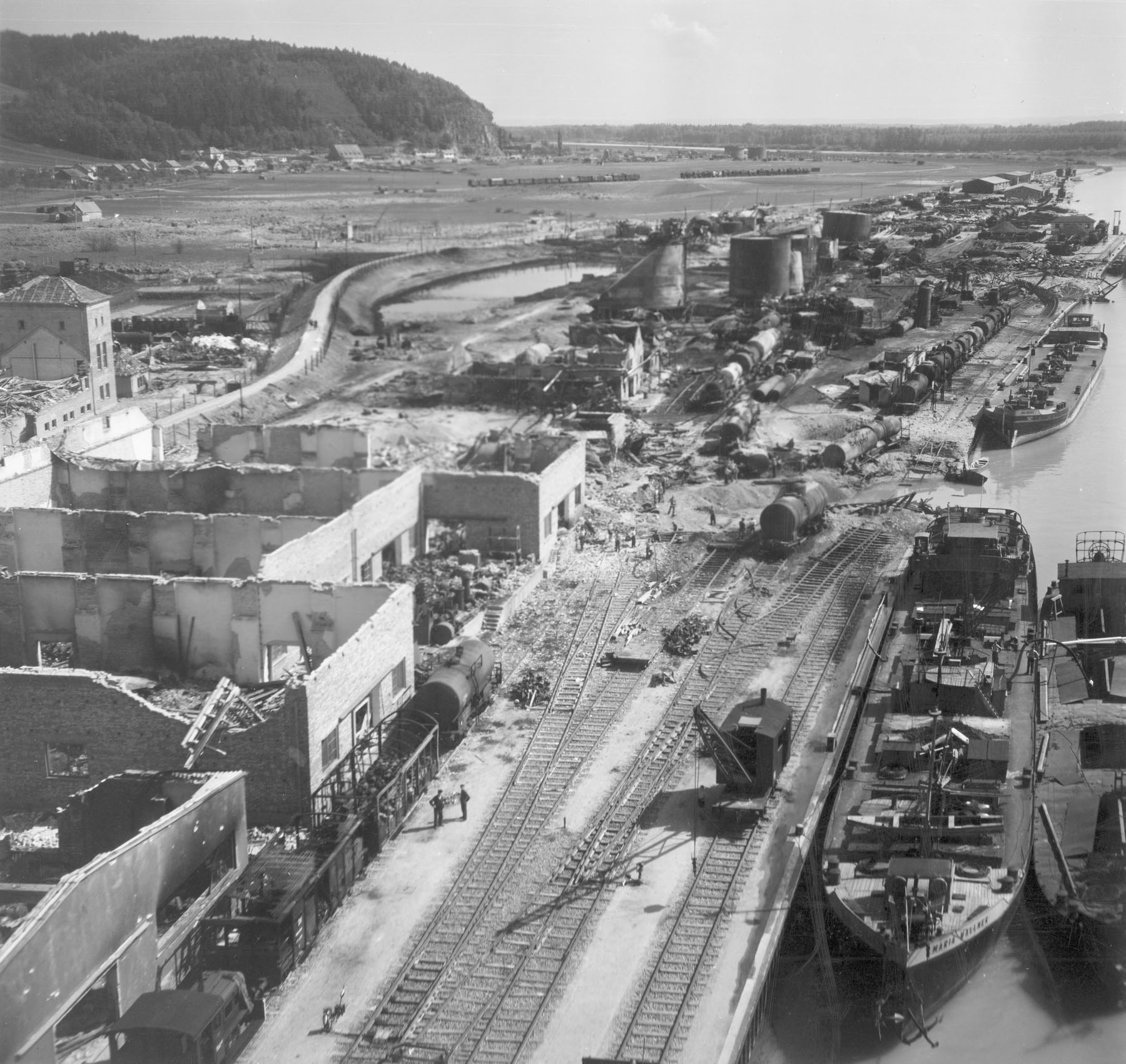 The ruins of Deggendorf harbour, Bavaria. On 20 April 1945 Deggendorf and Annaburg were attacked, Deggendorf from Douglas A-20 Havocs of the 426th Bomb Group. The Siriuswerke ("Deggendorfer Bleicherde - Fabriken") and the Wallner company were destroyed. A 5000 t grain silo and twelve oil tanks were destroyed at Wallner, as were the quais on the Danube and most of the buildings. As workers are clearing up the site and look casually at the reconnaissance plane the photo was probably taken after the end of the war.